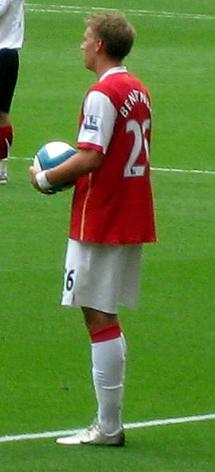 Danish football (soccer) player Nicklas Bendtner